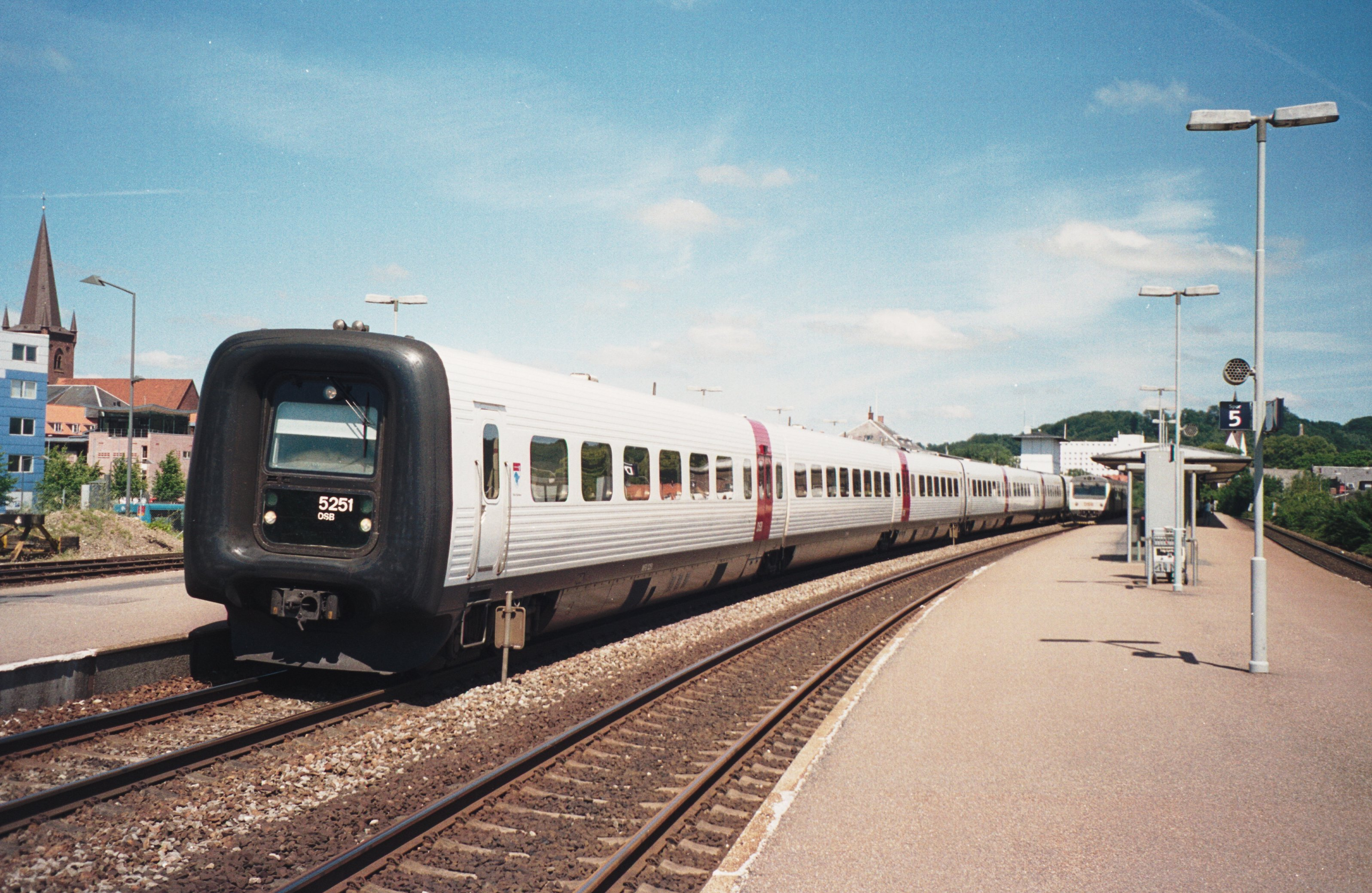 DSB's IC3 trainsets #51, #22 and #09 in Vejle. DSB's MR/MRD trainset #25 is visible in the background.